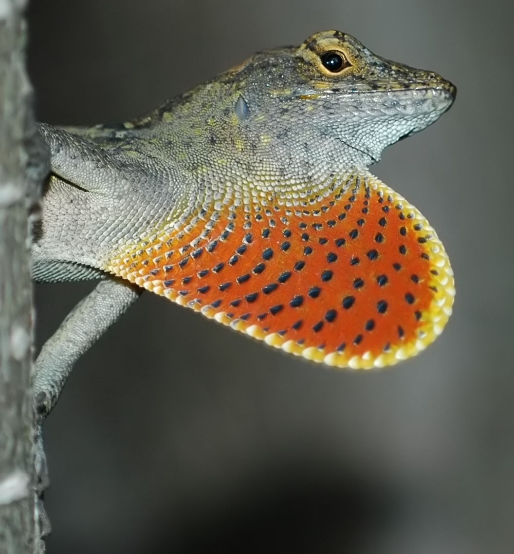 Large dewlap on a male Brown anole (Anolis sagrei)